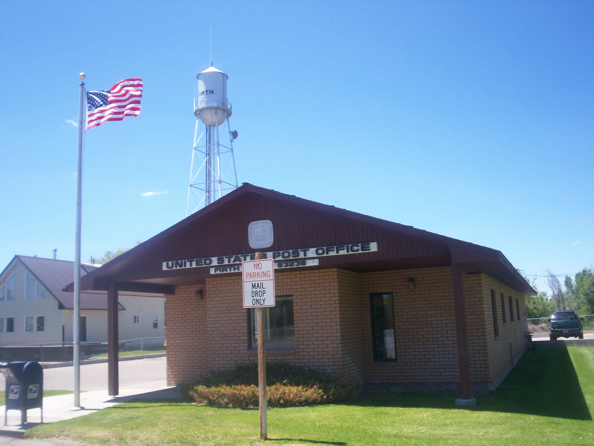 The Post Office in Firth, Idaho. The towns water tower is in the background.